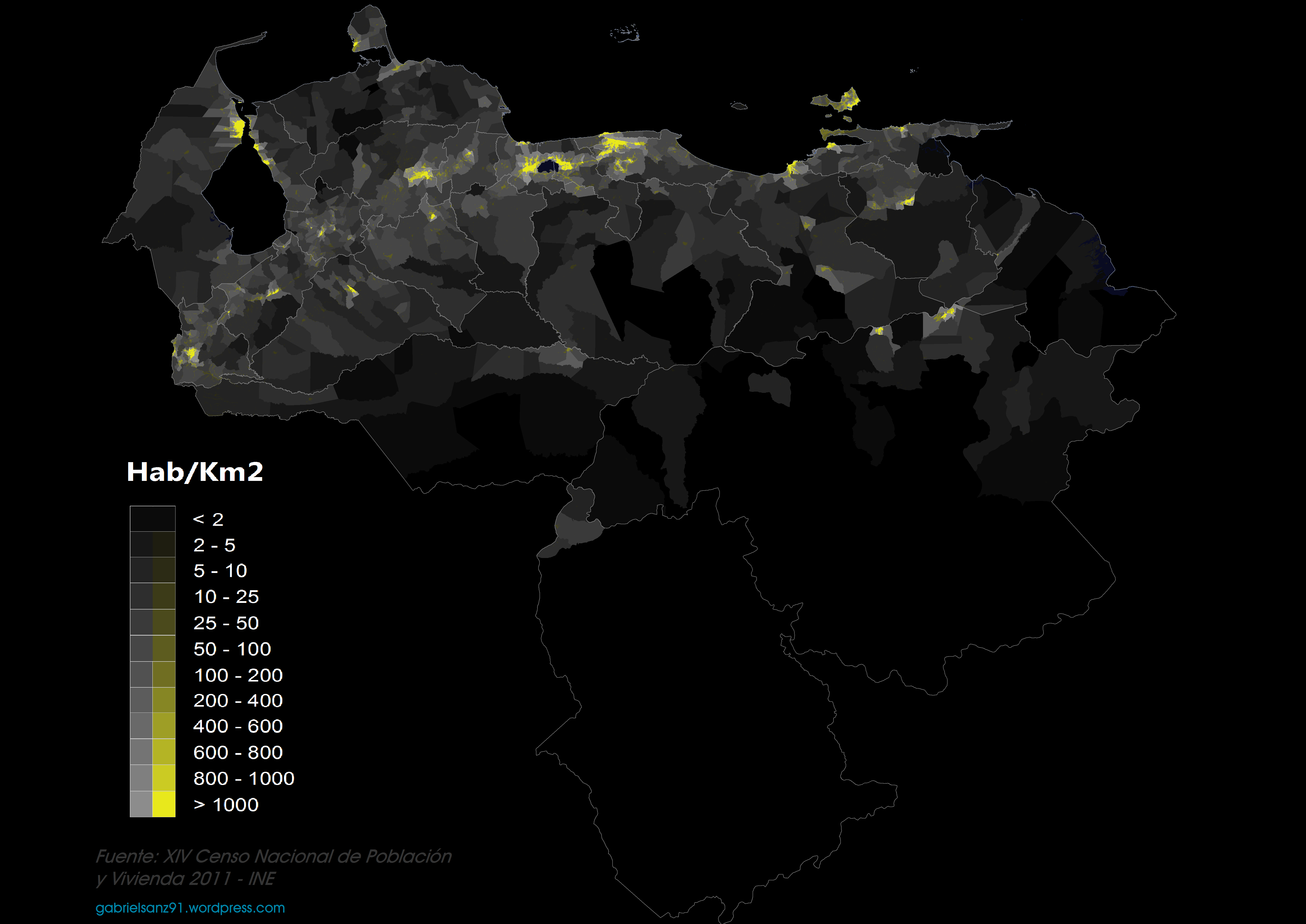 Population density of Venezuela by parroquias (parishes) according the results of 2011 Census. Yellow tones denote an urban area of the parish.